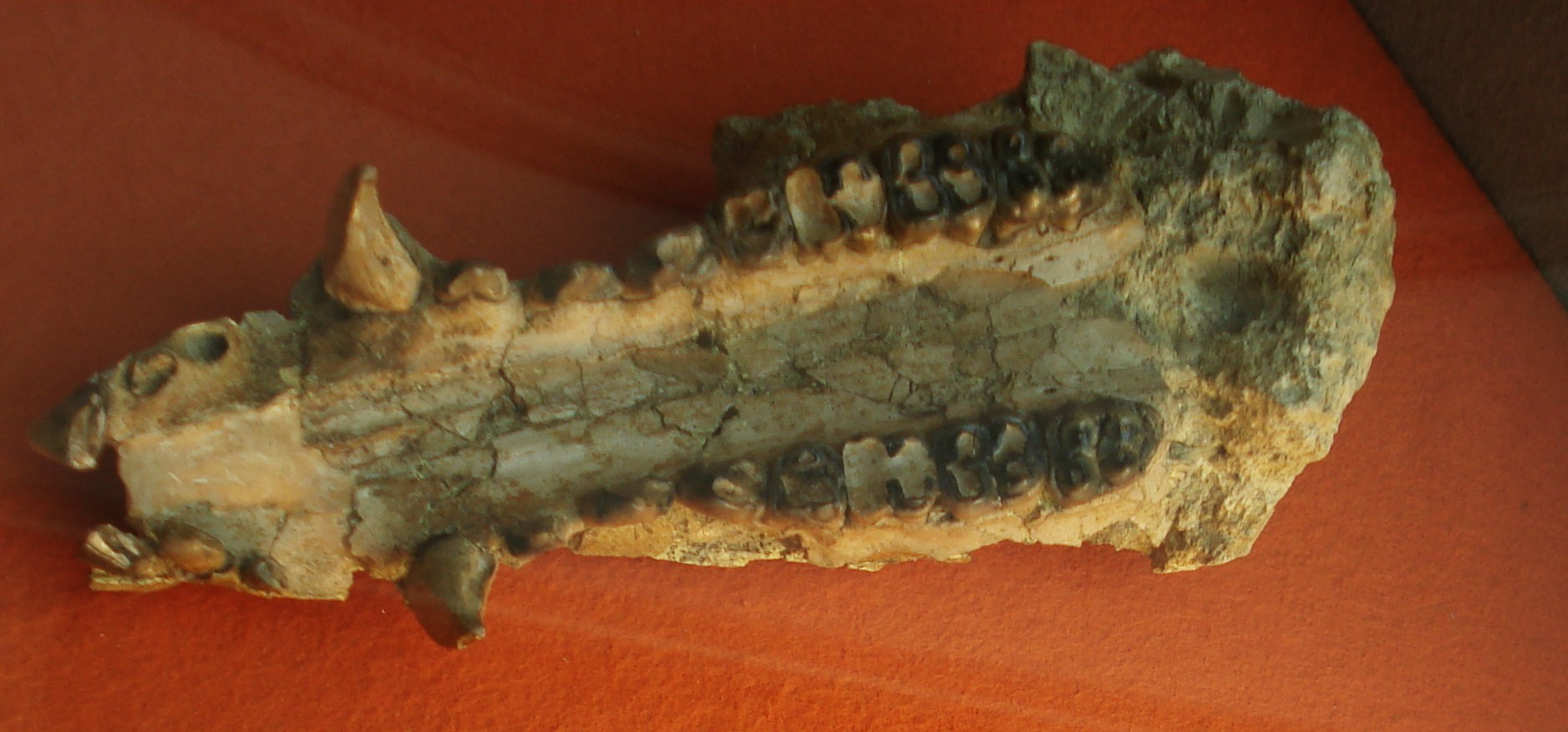 fossil of hyotherium